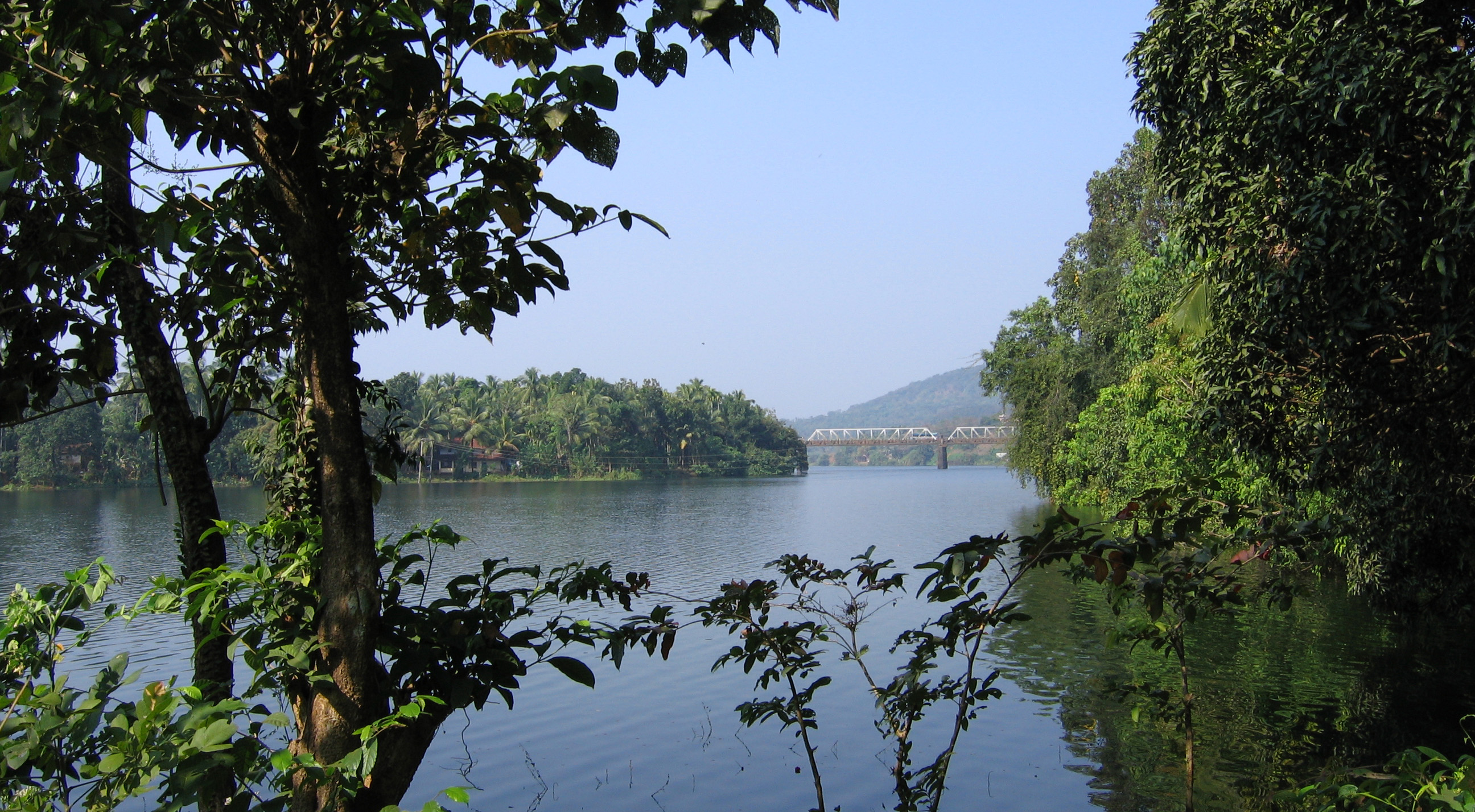 Iritty Bridge, built by the British, still in use. ബ്രിട്ടീഷുകാരുണ്ടാക്കിയ ഇരിട്ടി പാലം